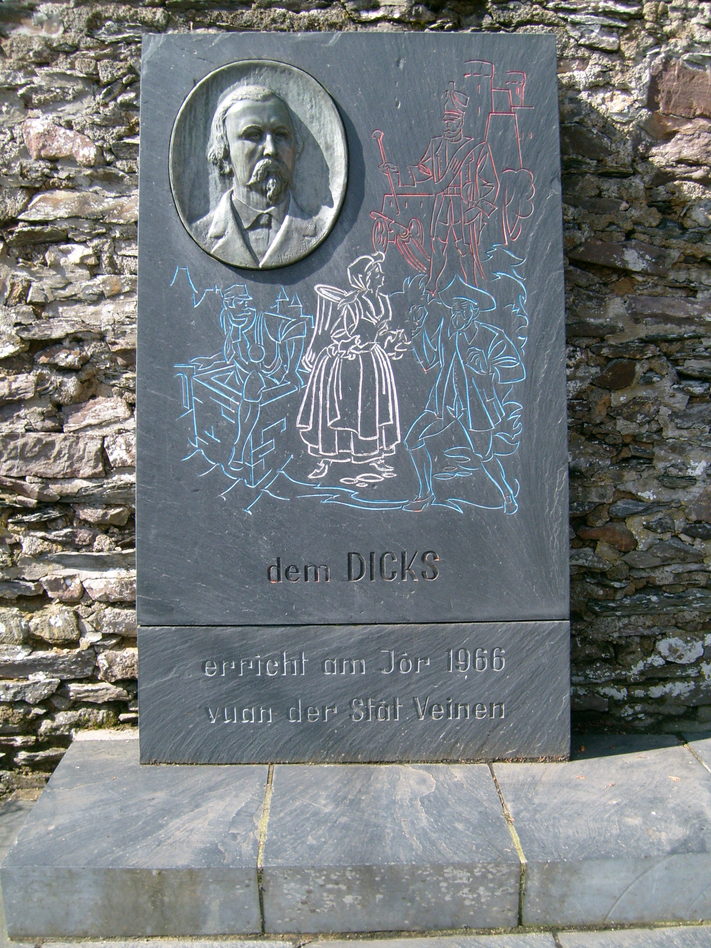 Monument dedicated to Edmond de la Fontaine (alias Dicks) by Nina Grach-Jascinsky (1966), place named "Dicksgärtchen", Vianden, Luxembourg.